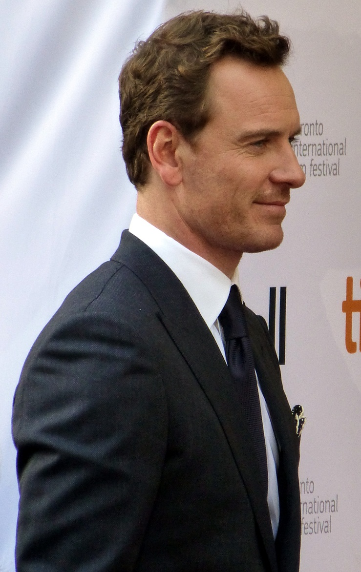 Michael Fassbender at the premiere of 12 Years a Slave, 2013 Toronto Film Festival